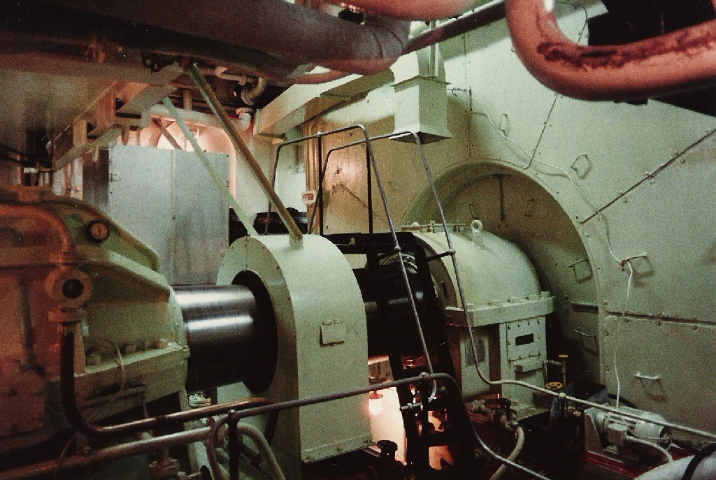 Port main propulsion motor, ss Canberra. Photo taken by Paul Dashwood 1984